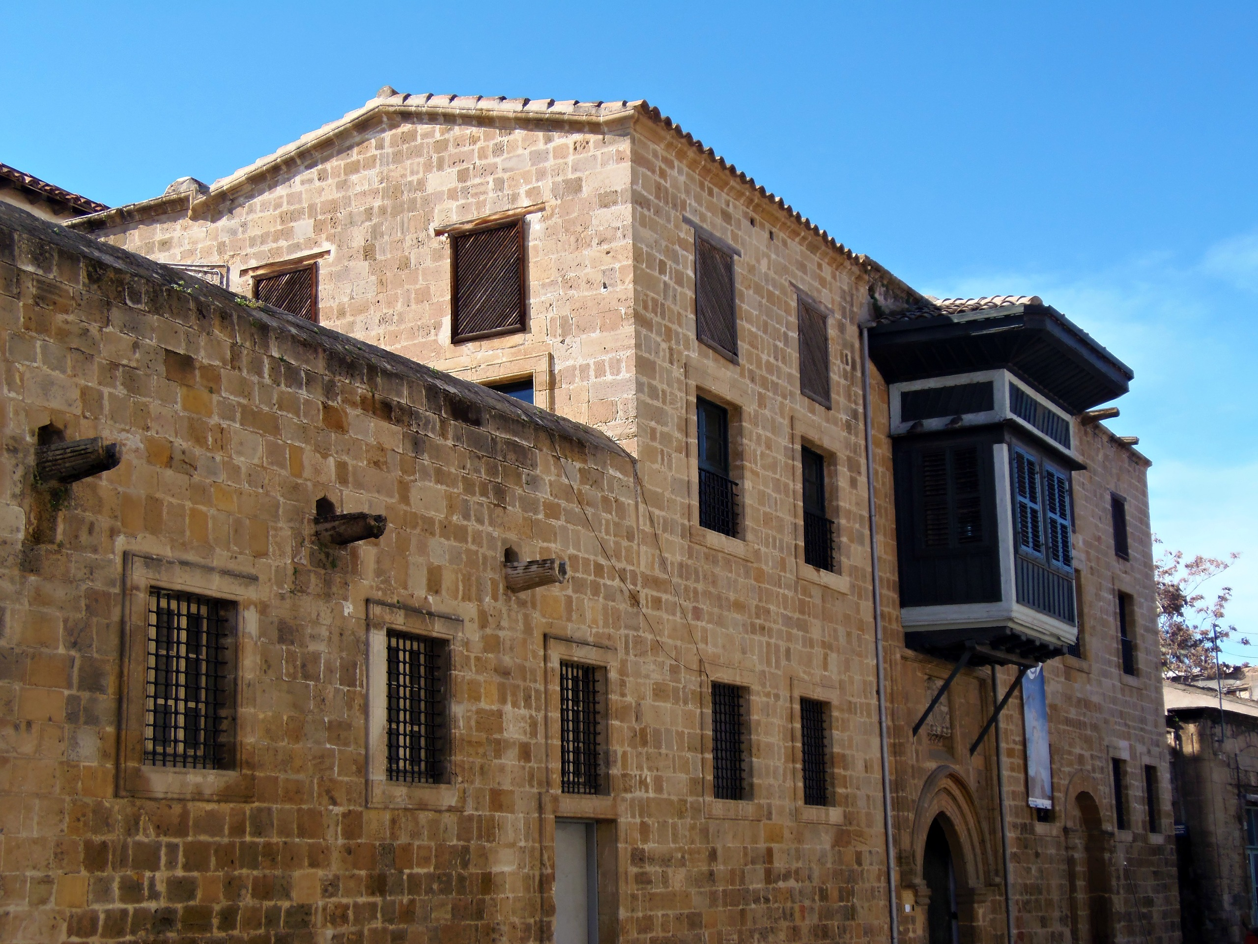 The facade of the Hadzhigeorgakis Kornesios'house (now Ethnographic Museum) in Nicosia, Cyprus.